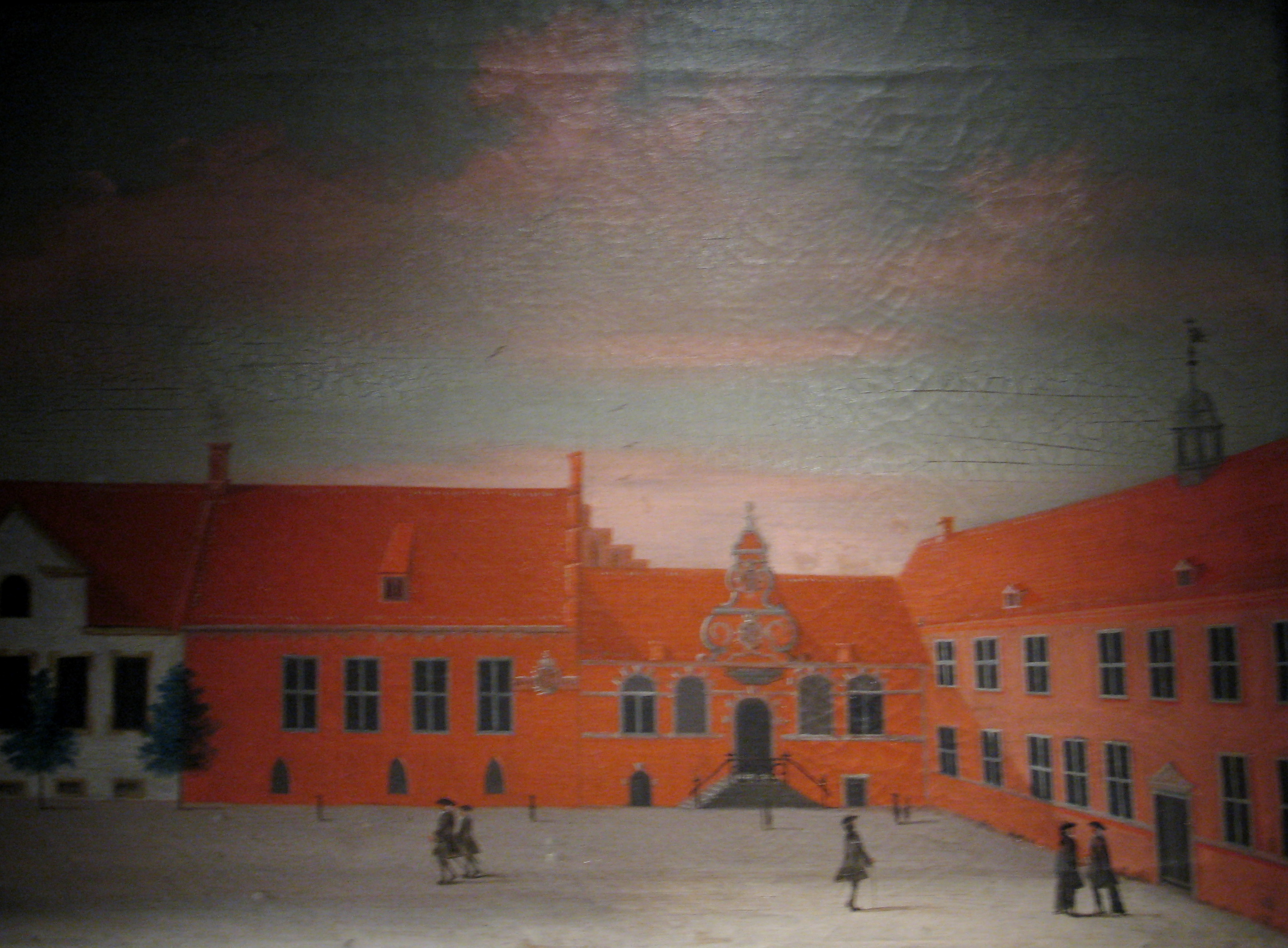 Frue Plads and university buildings, Copenhagen.